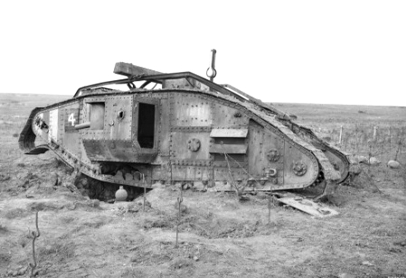 AWM caption : A disabled British Mark V* Male tank (with number 4 stencilled on the side) lies abandoned on the battlefield near Duncan Post. The tank was put out of action by a land mine, one of which can be seen in the hole beneath the the tank. Amidst the wire entanglements in the background (far right) are several other mines. Note the timber unditching beam fitted to the rails on the roof and the semaphore paddles used for signalling other units. The door to the gun sponson is lying on the ground at the rear of the vehicle. Location : Western Front: Western Front (France), Aisne, Ronssoy Comment : The mines consisted of surplus obsolete football-sized bombs normally fired by the 2 inch Medium Mortar, which the British had laid earlier in 1918 in expectation of German tank attacks, before they withdrew from the area. The military implications of laying landmines were still not fully understood, and minefields were not properly documented, leading to farmers being killed after the war. NOTE : This version of the photograph has brightness and contrast artificially increased to highlight details. See also : Image:MkVTankDisabledByLandMine30September1918.jpeg